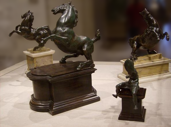 In 1914 the Museum of Fine Arts from Budapest (Szépművészeti Múzeum) acquired two small bronze statuettes: a rearing horse and a rider. The sculptures had been part of a collection assembled about hundred years earlier by a Hungarian artist, Ferenczy István, while in Rome. They thought firstly that the statuettes were antique Greek art objects, but soon the question was raised whether they were not rather Renaissance works, and that's how the name of Leonardo came into picture. Was it possible that the rearing horse and the rider had been cast based on drawings made by Da Vinci? The photo was taken in the National Gallery of Art exhibition "The Budapest Horse: A Leonardo da Vinci Puzzle".